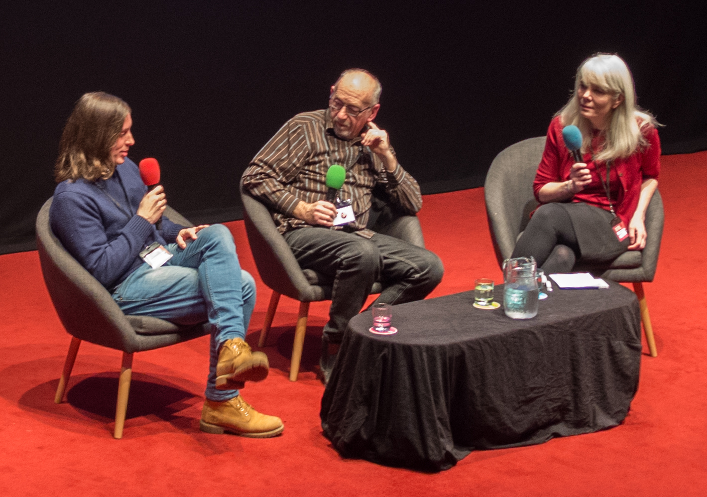 Suburban Steps To Rockland: The Story of The Ealing Club world premiere post-screening Q&A session. Founded by Alexis Korner & Cyril Davies, the Ealing Club is widely regarded as the cradle of blues-based rock music because of the scene that developed there during 1962-65. Pictured are (l-r) the film’s director Giorgio Guernier; guitarist Dick Taylor, founding member of the Rolling Stones and the Pretty Things; and Q&A host, former Melody Maker writer Karen Shook. The screening was part of the 2-19 November 2017 Doc ’N Roll film festival in London.